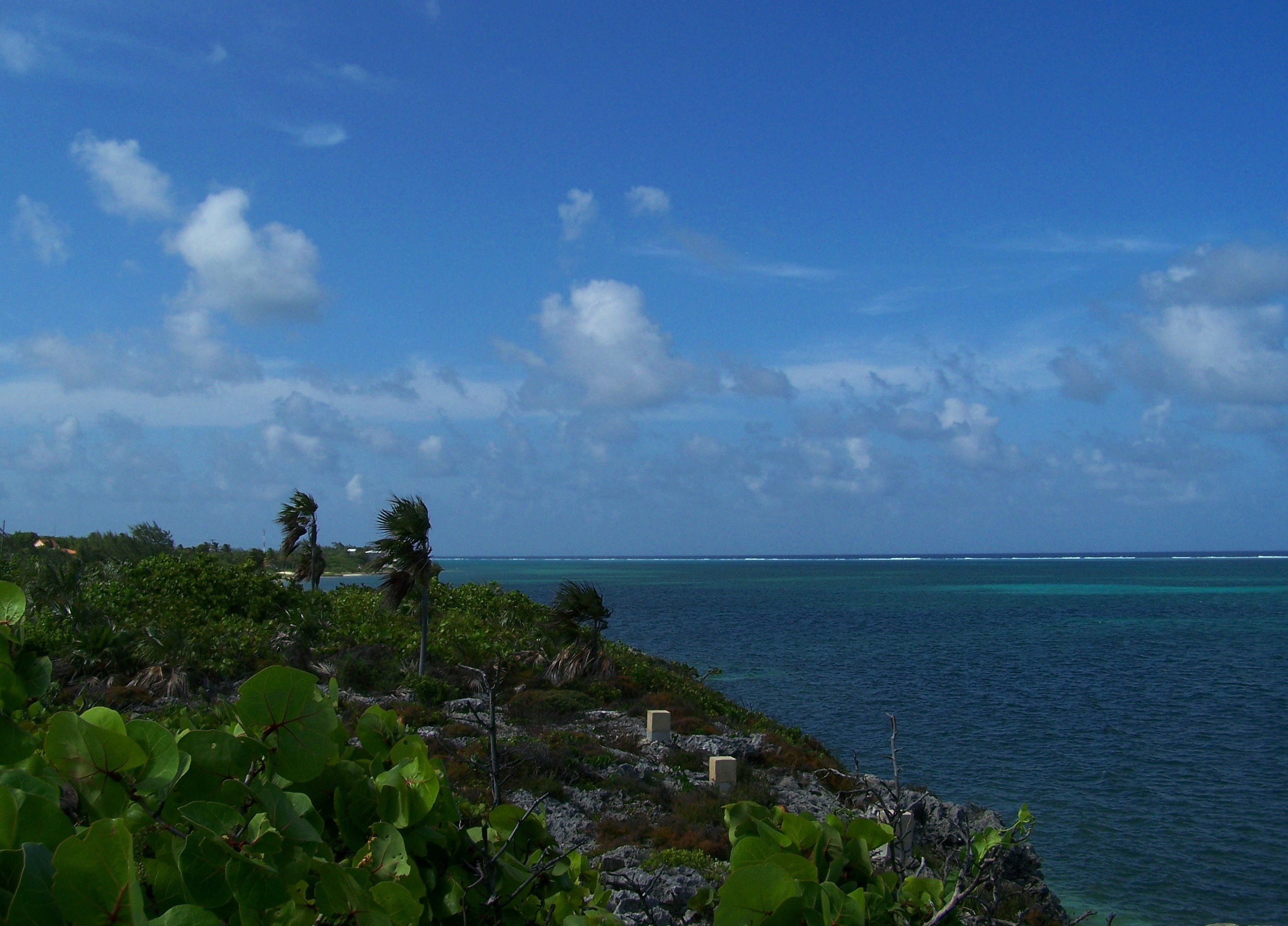 Memorial stones at Wreck of the Ten Sail Park - East End, Grand Cayman